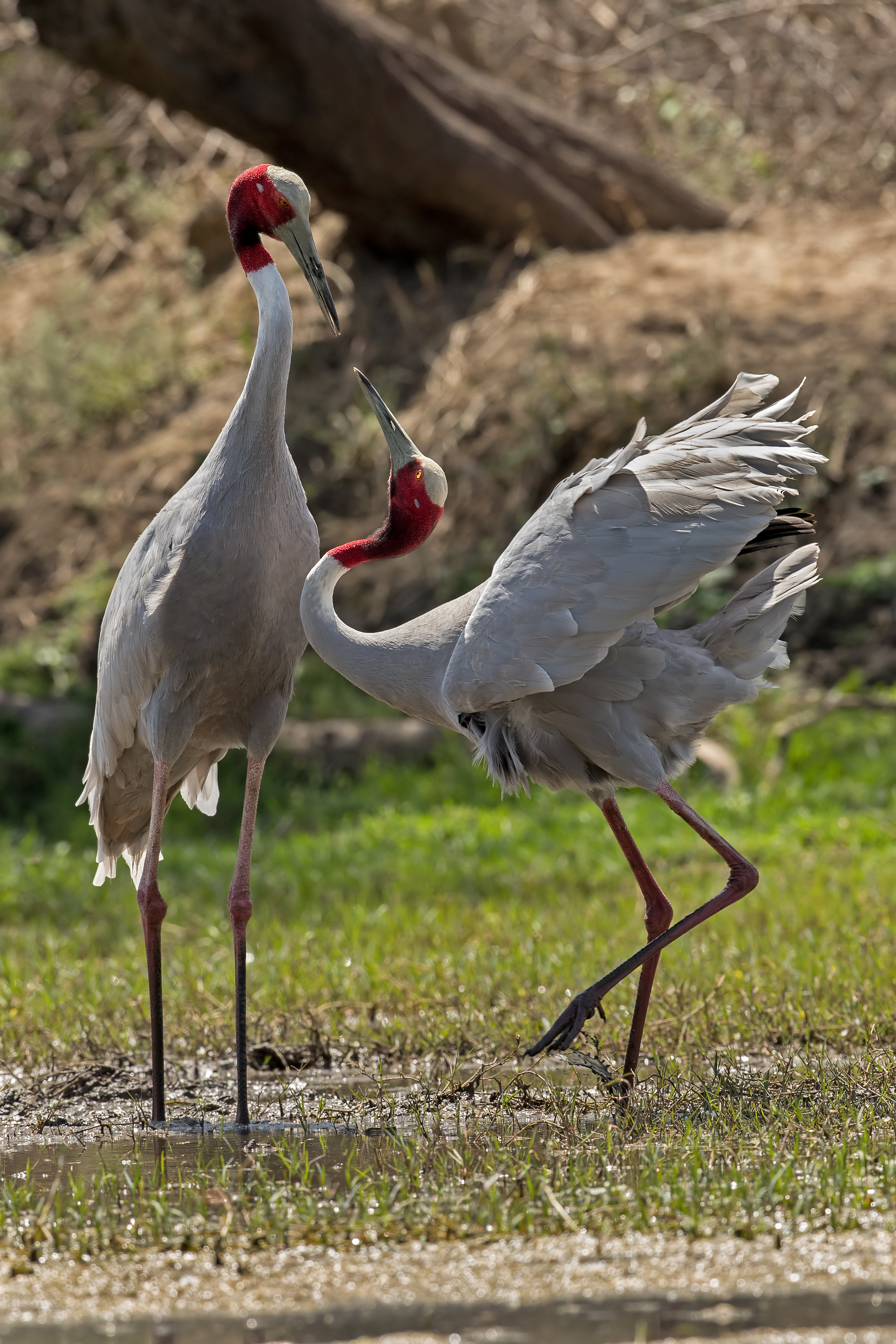 Courtship dance